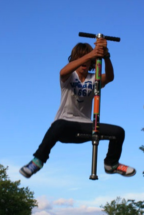 Extrem jumper riding a TK8 Fun from